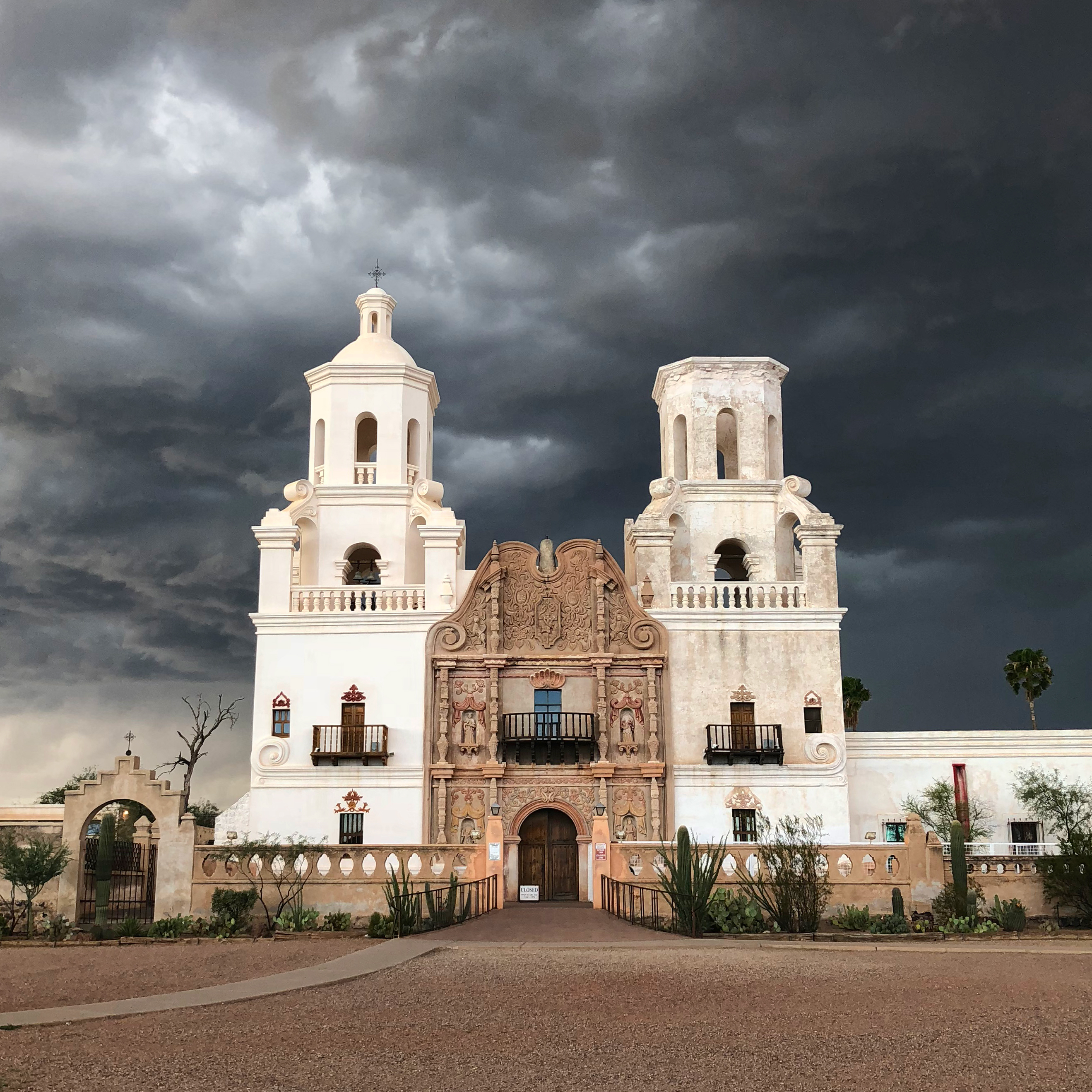 Mission San Xavier del Bac near Tuscon, Arizona, United States.